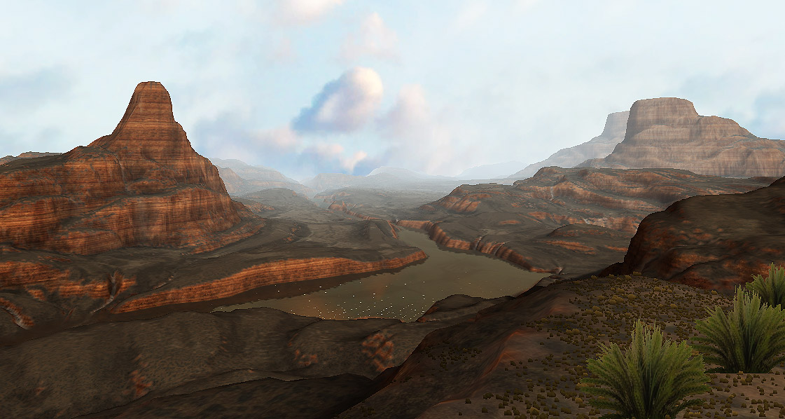 Canyon map created in Grome editor. Includes procedural generated terrain, texturing, lightmaps, water and vegetation.